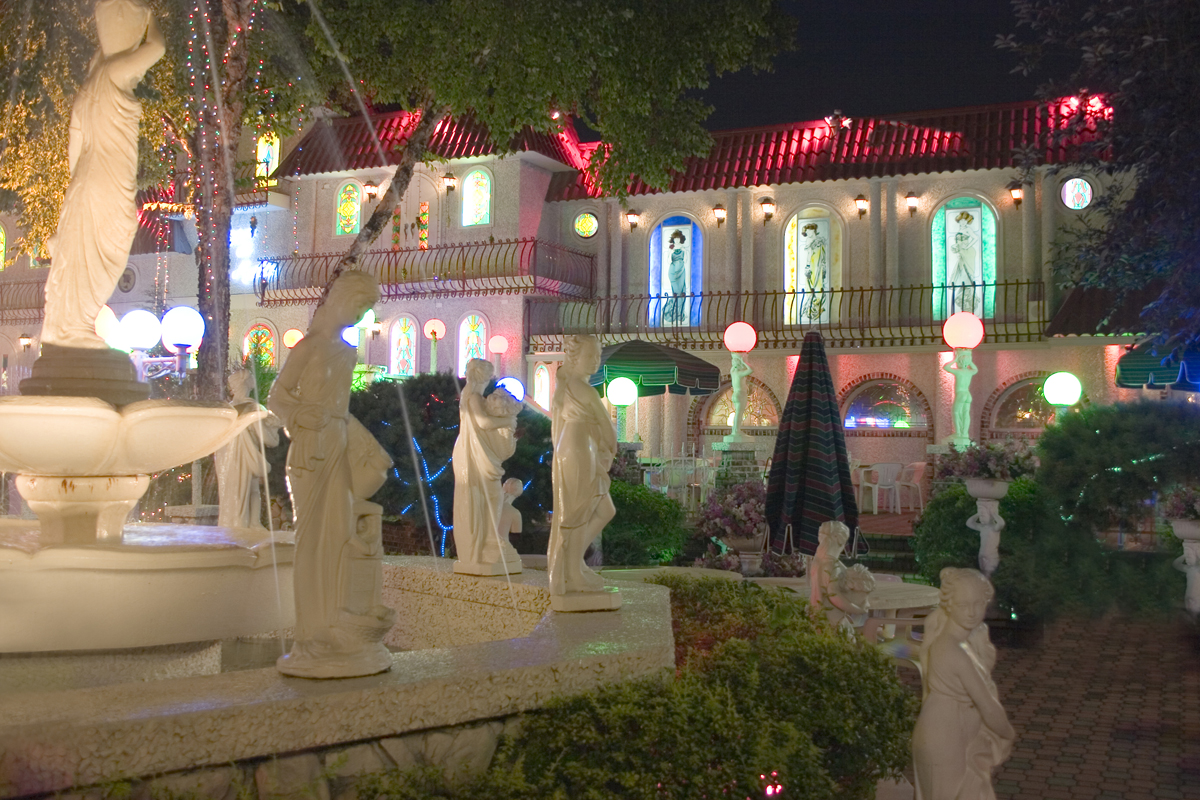 Mister C's grand outdoor piazza